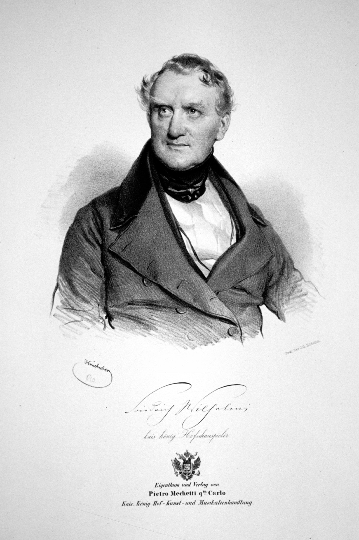 Friedrich Wilhelmi (1788-1852) Austrian actor of German origin